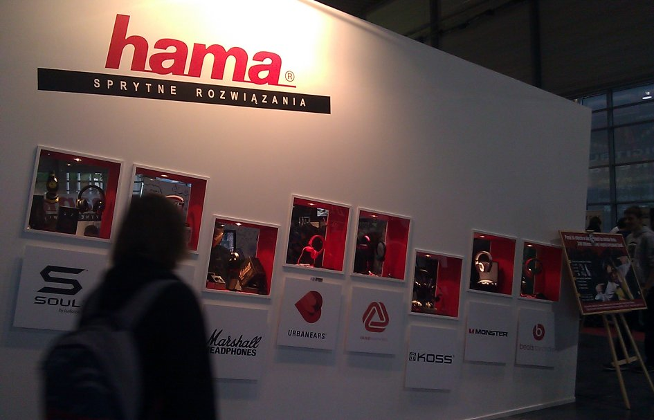 Poznań Game Arena, 2012; Hama